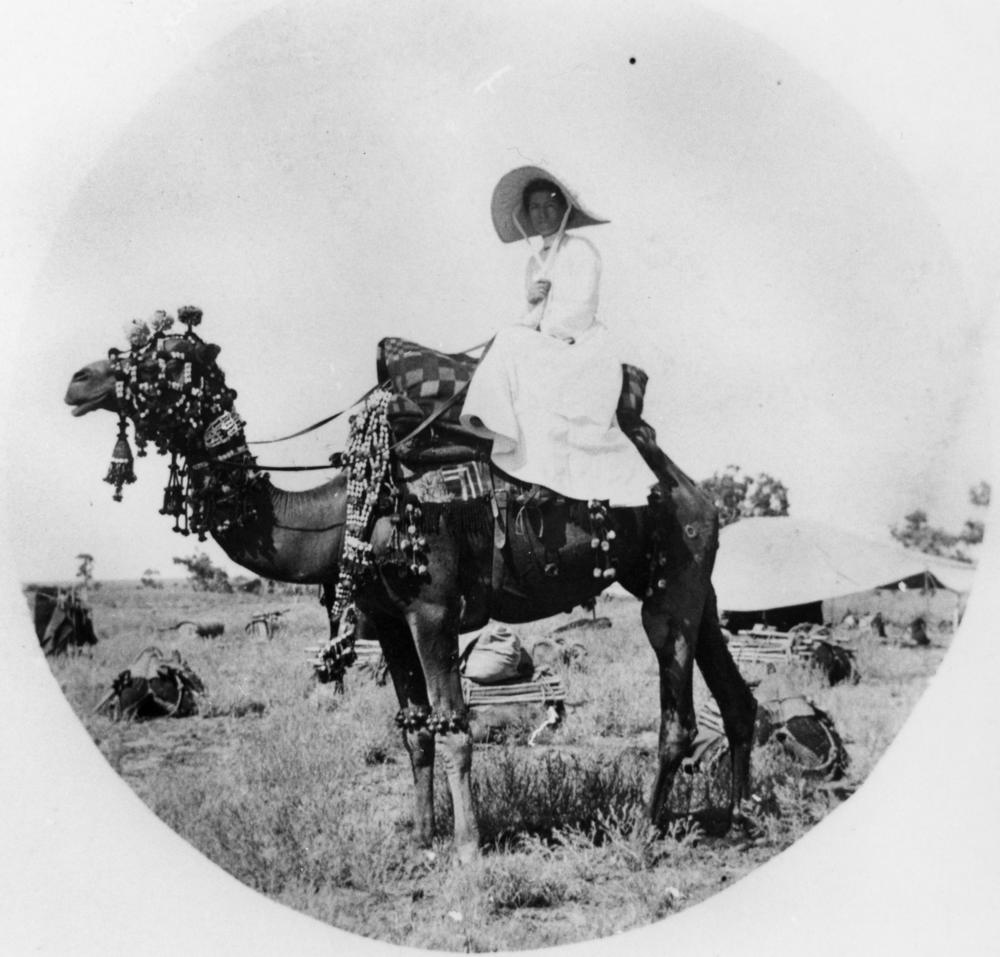 Unidentified woman on a camel, ca. 1880 A woman in a long dress, jacket and a large picture hat is sitting side-saddle on a camel. The camel's bridle and the houdah are adorned in an oriental style with tassels and pompoms. An open sided tent can be seen in the background.